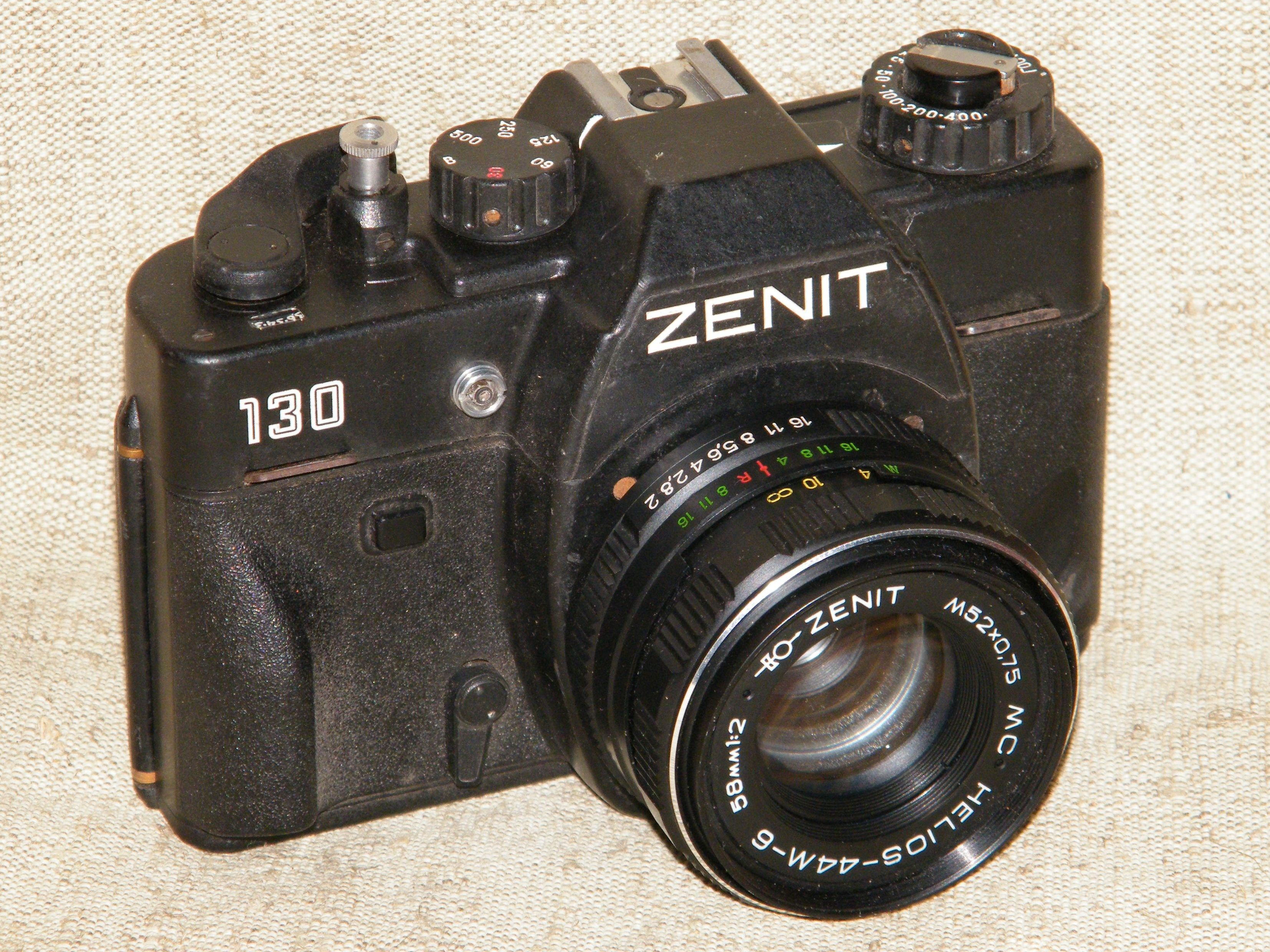 Zenit 130